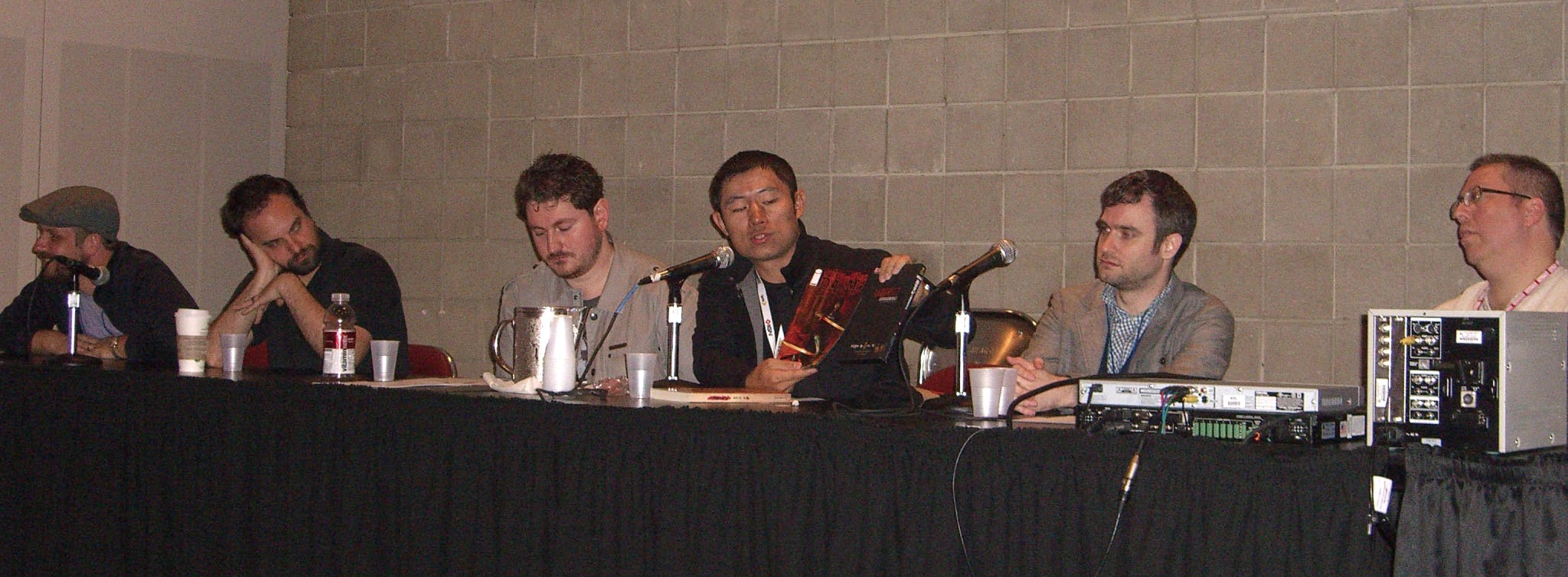 The “Image Comics Show” panel at the New York Comic Convention in Manhattan, October 9, 2010. Pictured left to right are comic book creators Tomm Coker, Tim Seeley, Ben McCool, James Zhang, Nick Spencer and Ron Marz. Photo by Luigi Novi. This photo may be used, modified and published for any purpose, only if a easily visible credit to the photographer is placed near the photo in each instance in which it is used. (See licensing information below.) Publication of this photo without this proper attribution constitute copyright infringement. For more information on my photos, you can contact me here.